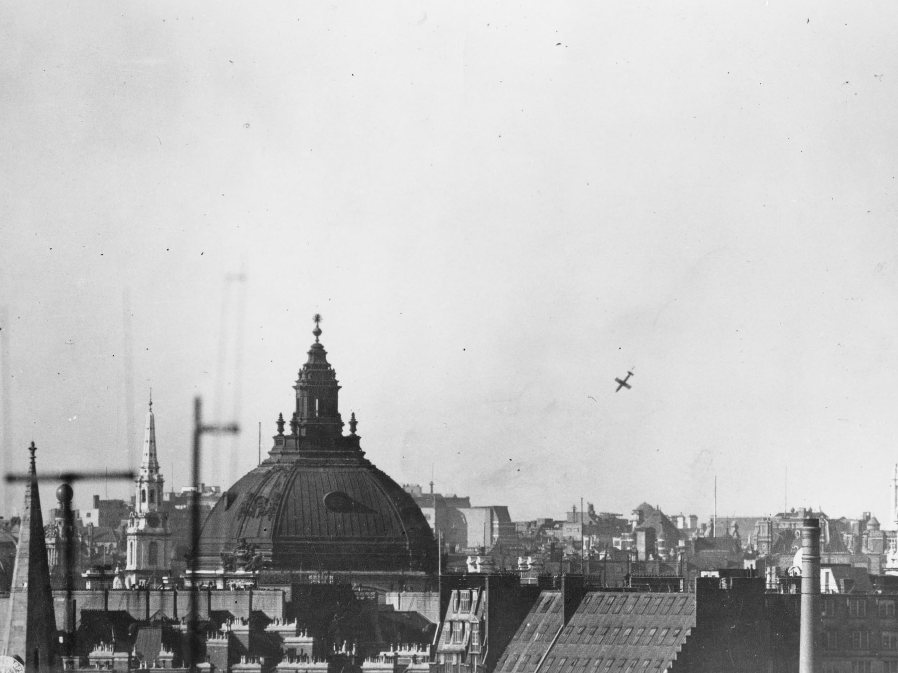 This V-1 made it through air defenses and fell on London. (U.S. Air Force photo)